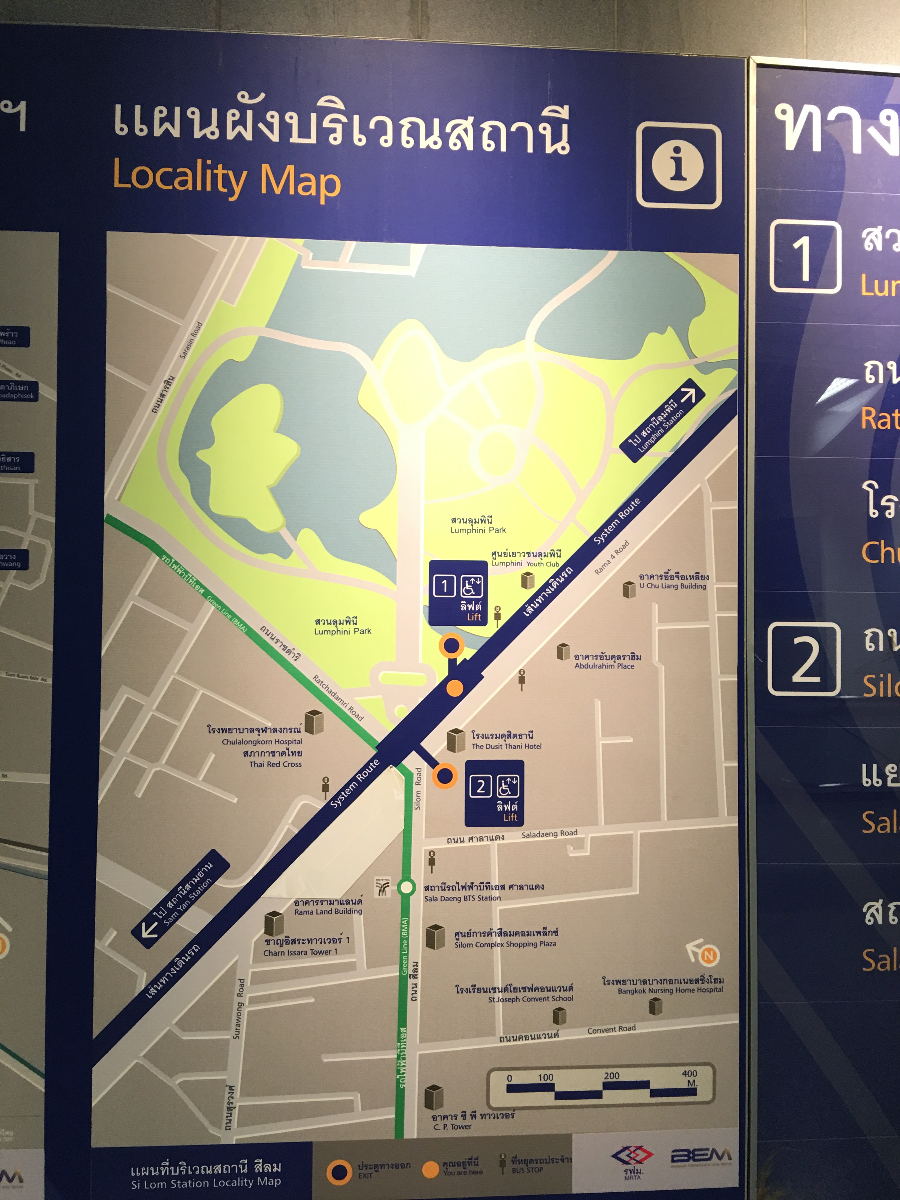 The locality map of Si Lom Station